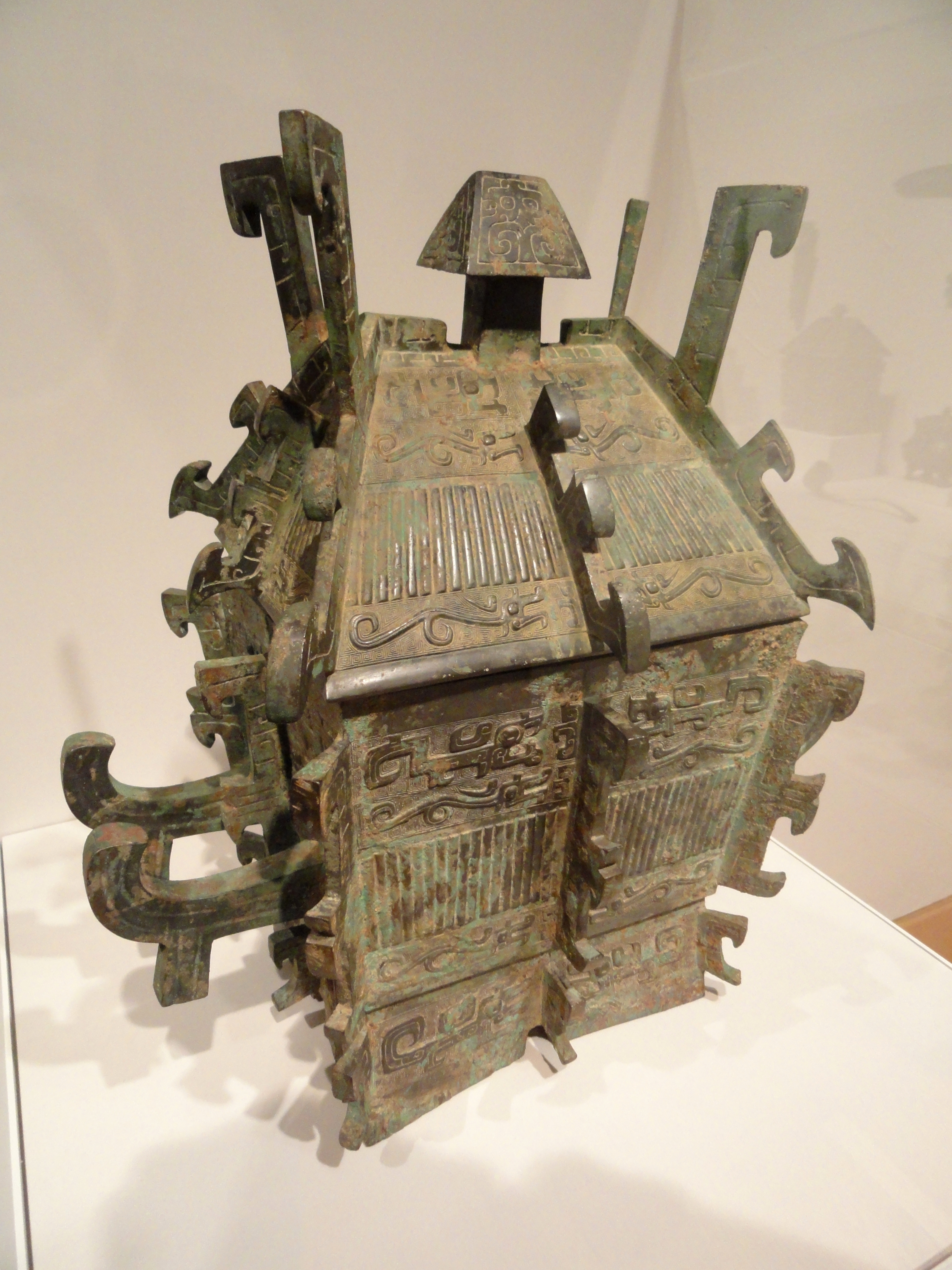 Exhibit in the Sackler Museum, Harvard University, Cambridge, Massachusetts, USA. The museum permitted photography of this artwork without restriction. This artwork is in the public domain because the artist died more than 70 years ago.